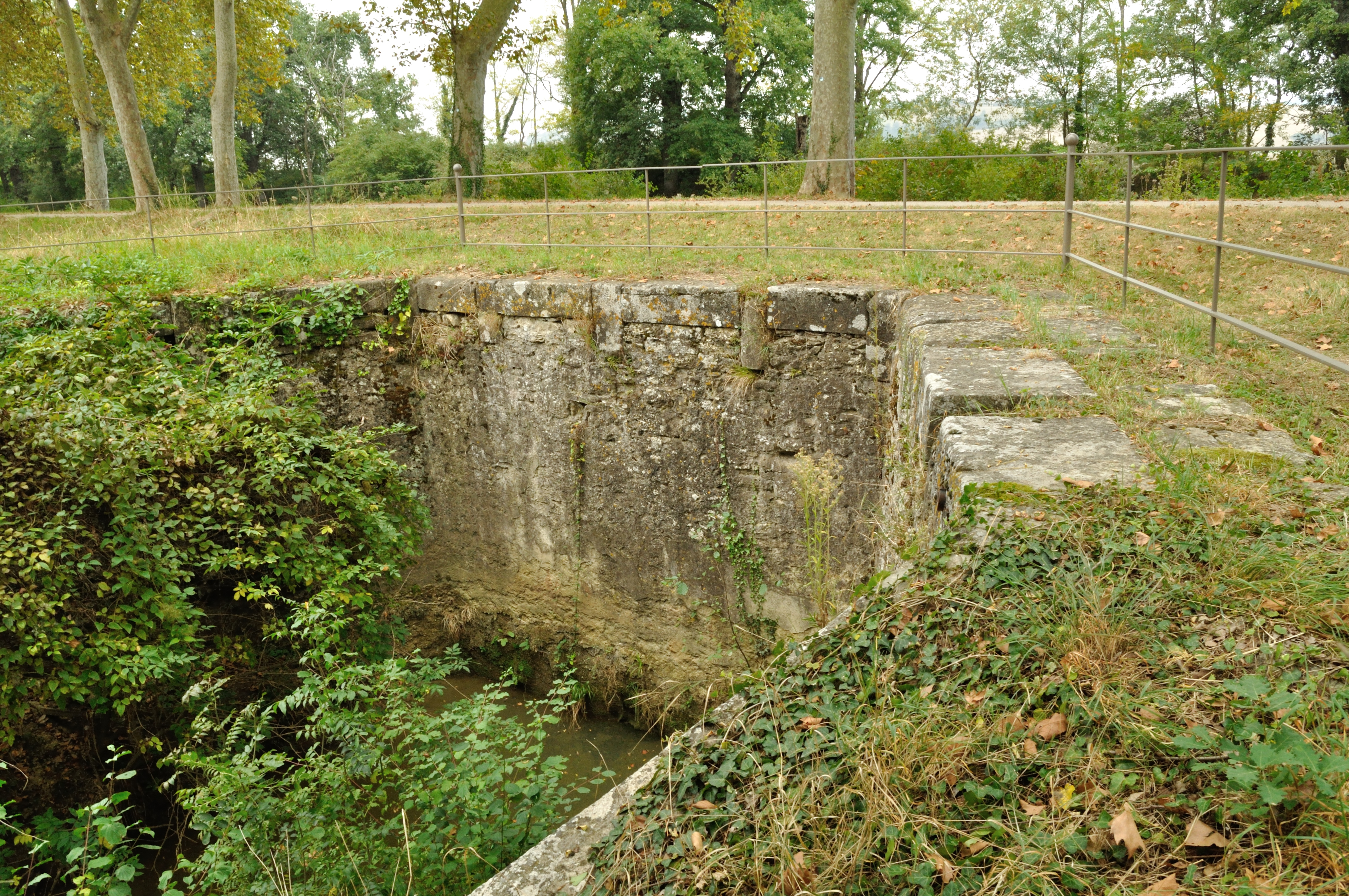 The Juncasse Aqueduct on the Canal du Midi, in Deyme. .